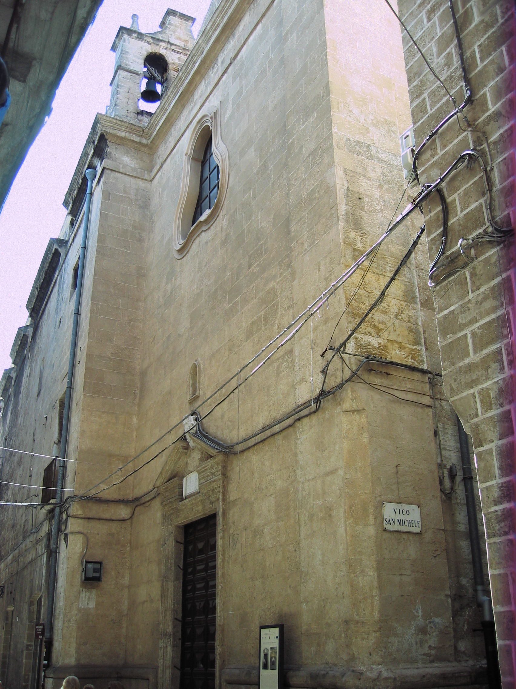 St. Michel church in Taranto